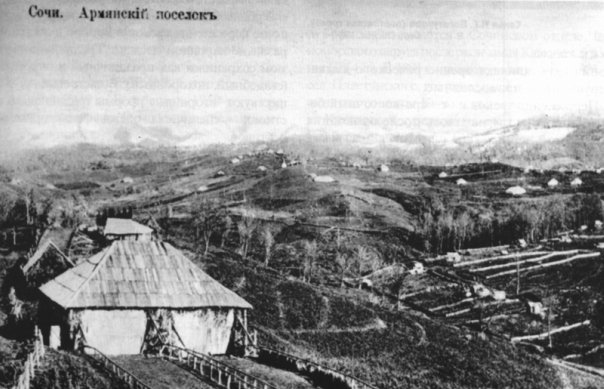 Armenian settlement near Sochi, Russia